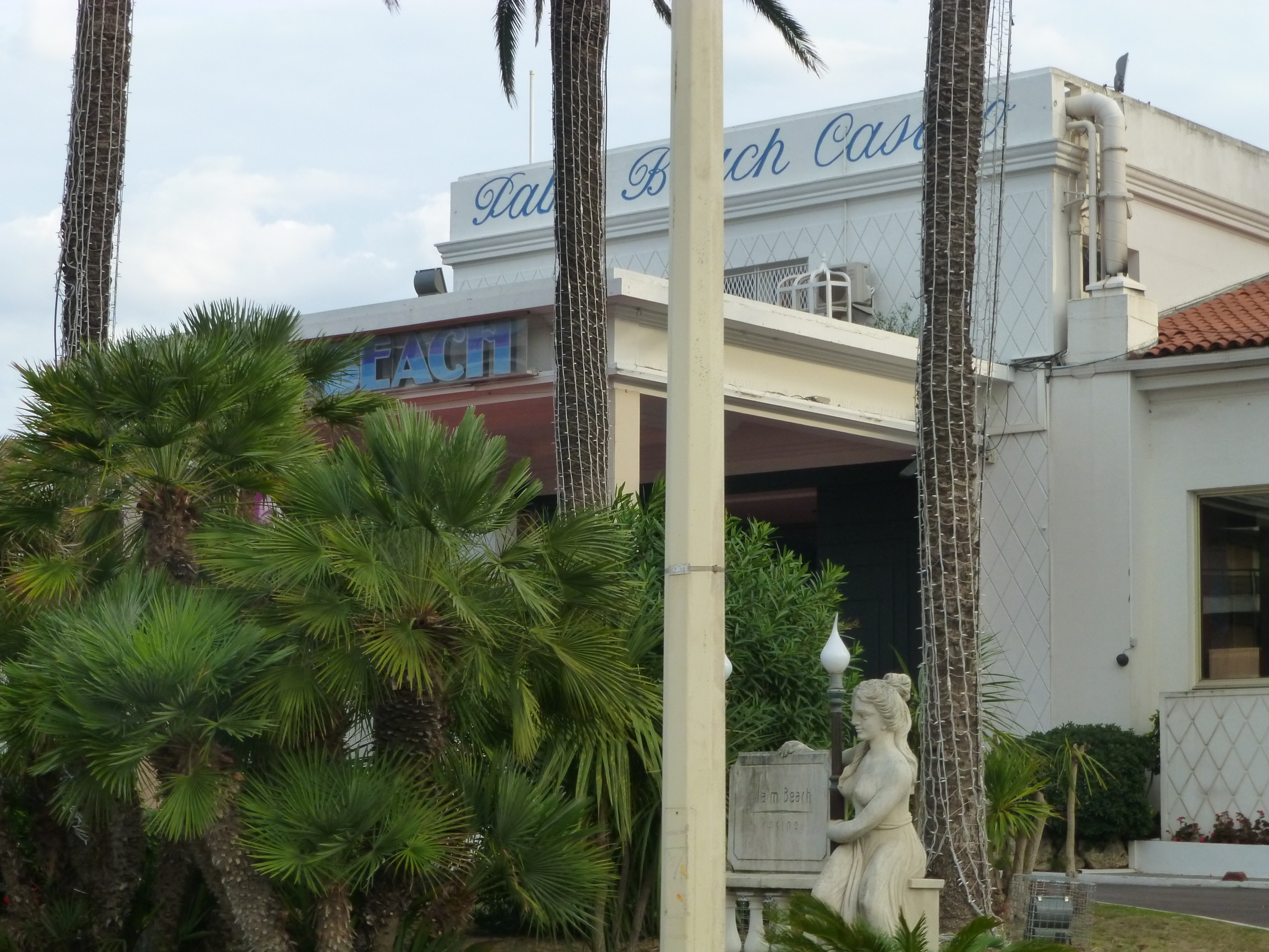 Cannes – Palm Beach Casino